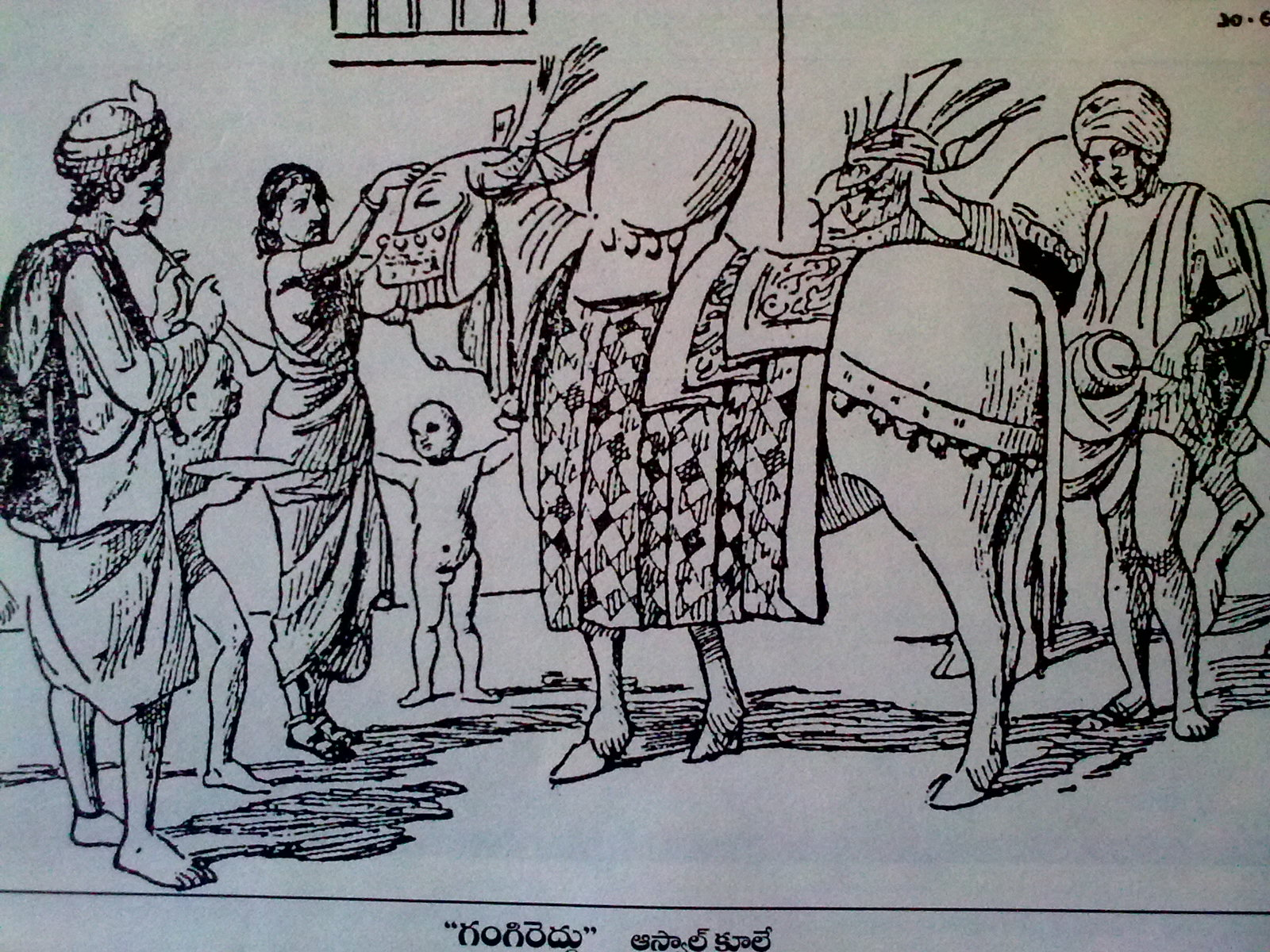 this is an image photographed,from a book by the uploader.